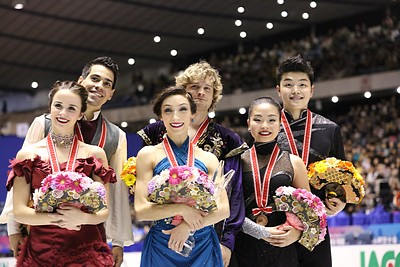 The ice dancing podium at the 2013 NHK Trophy. From left: Anna Cappellini / Luca Lanotte (2nd), Meryl Davis / Charlie White (1st), Maia Shibutani / Alex Shibutani (3rd).